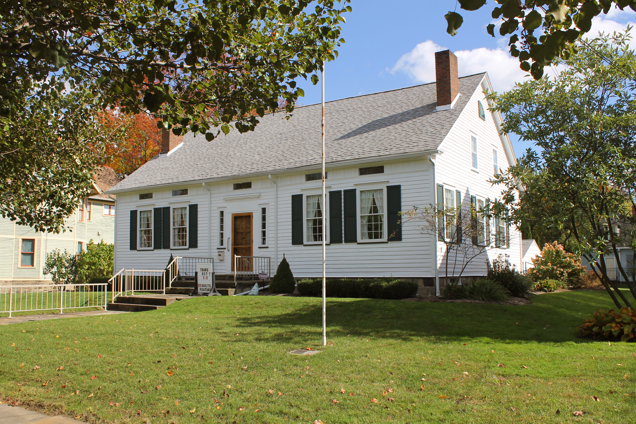 NRHP-listed John Stark Edwards House in Warren, Ohio.